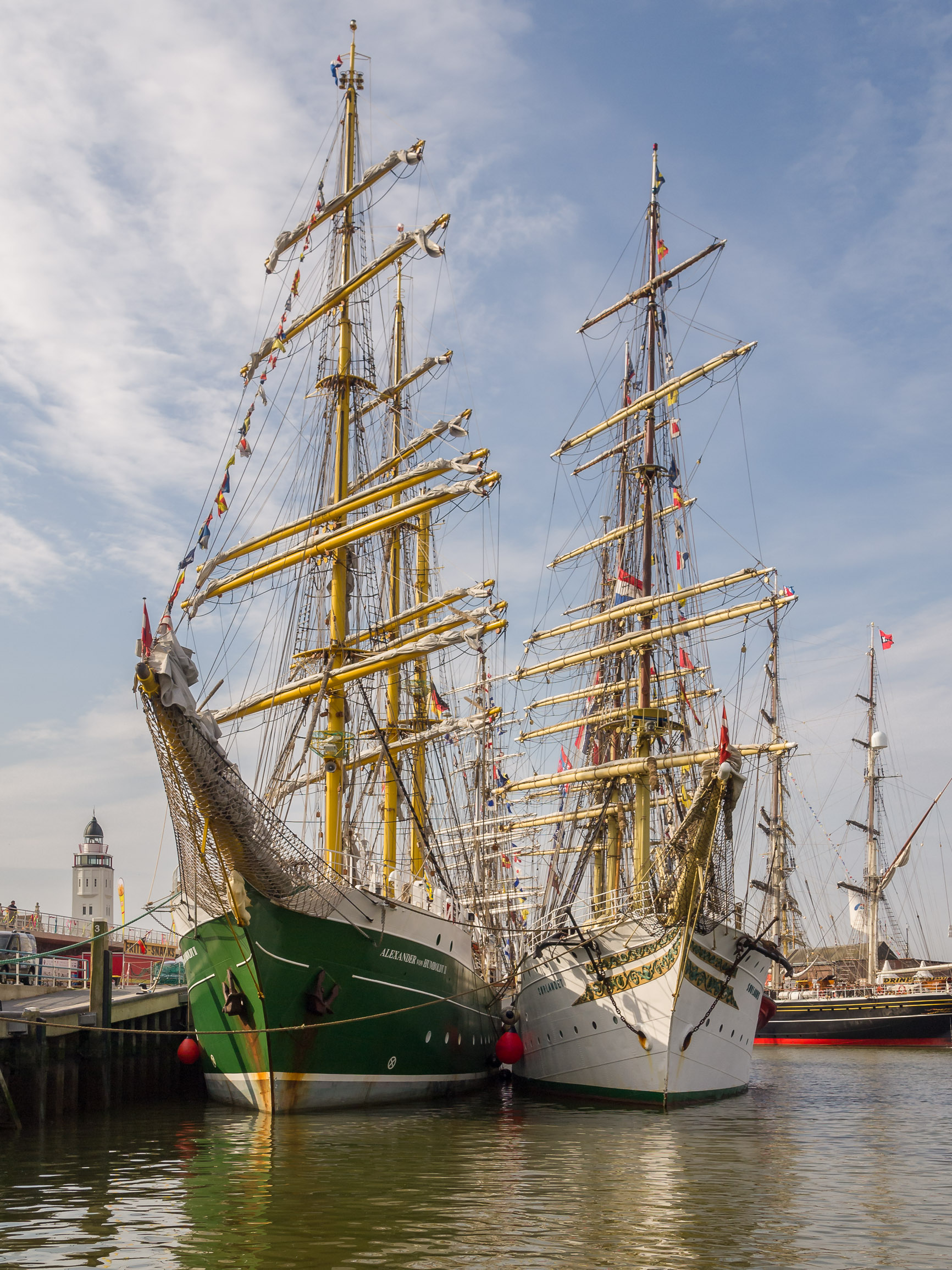 Tall Ship races Harlingen 2014 - Alexander von Humboldt II and Sorlandet in the back Stad Amsterdam